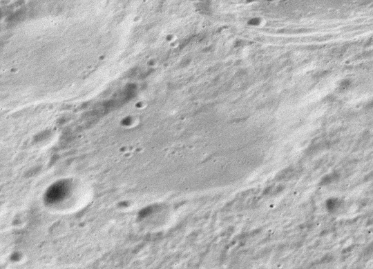 Oblique view of Edison, on the far side of the moon. North is in upper right.